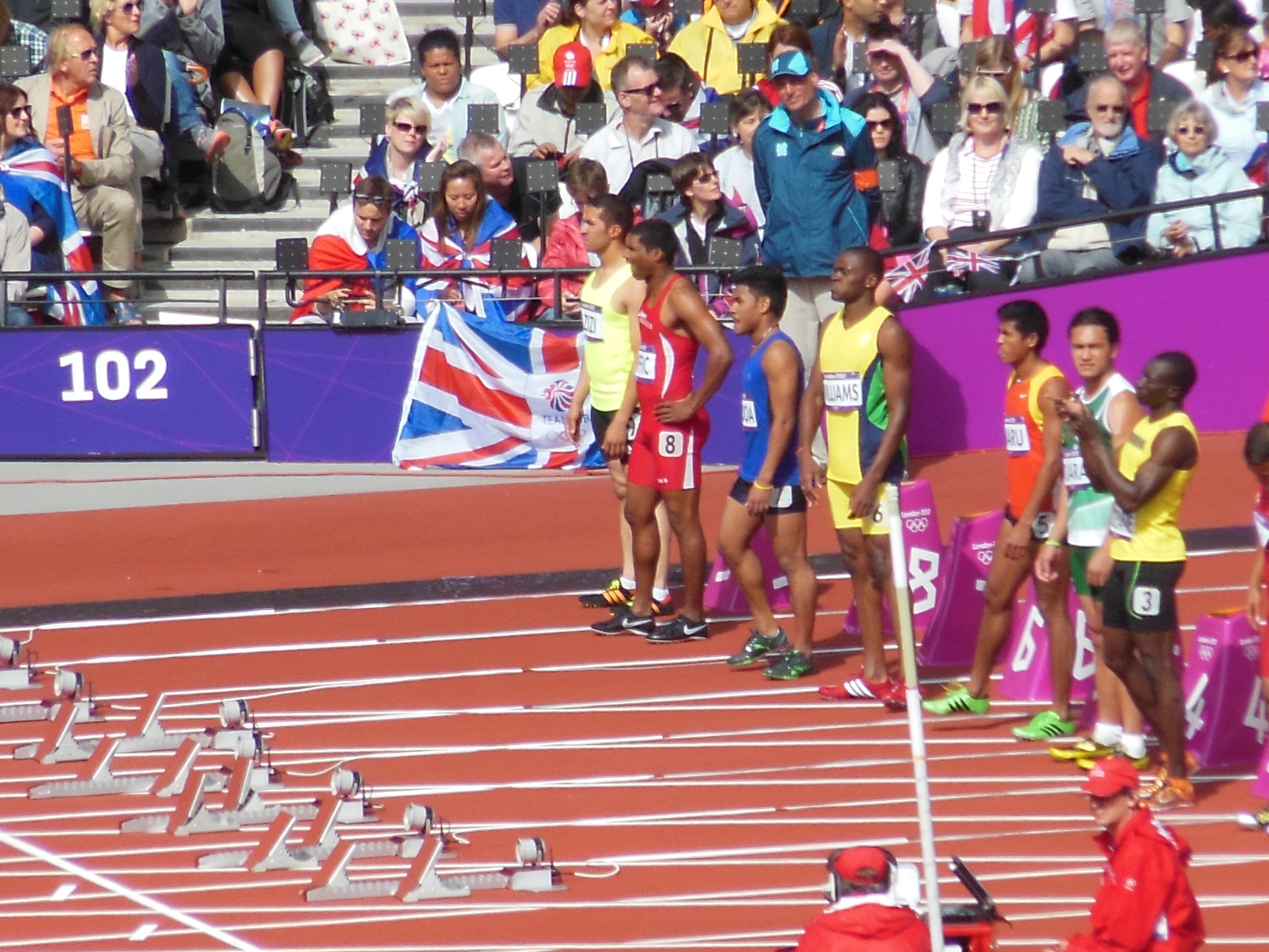 Athletics at the 2012 Summer Olympics – Men's 100 metres, Preliminaries heat 4 1 Gérard Kobéané 2 Fabrice Coiffic 3 Courtney Carl Williams 4 Rachid Chouhal 5 Tilak Ram Tharu 6 Masoud Azizi 7 Nooa Takooa 8 Patrick Tuara